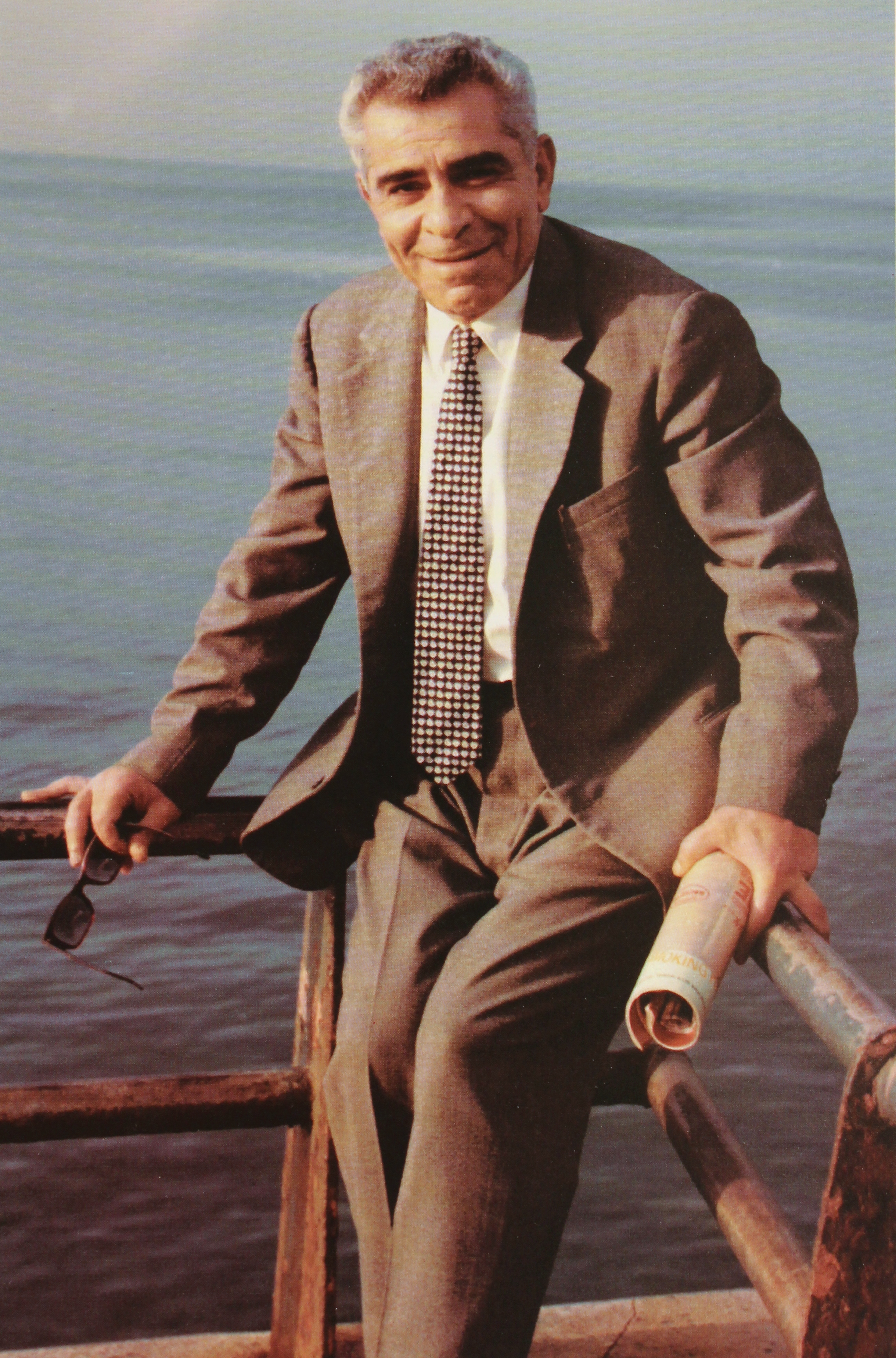 Andranik Tsarukyan